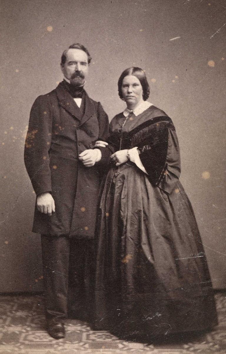 Bernt Lund and wife Hedevig Thorine Christine Erichsen Lund